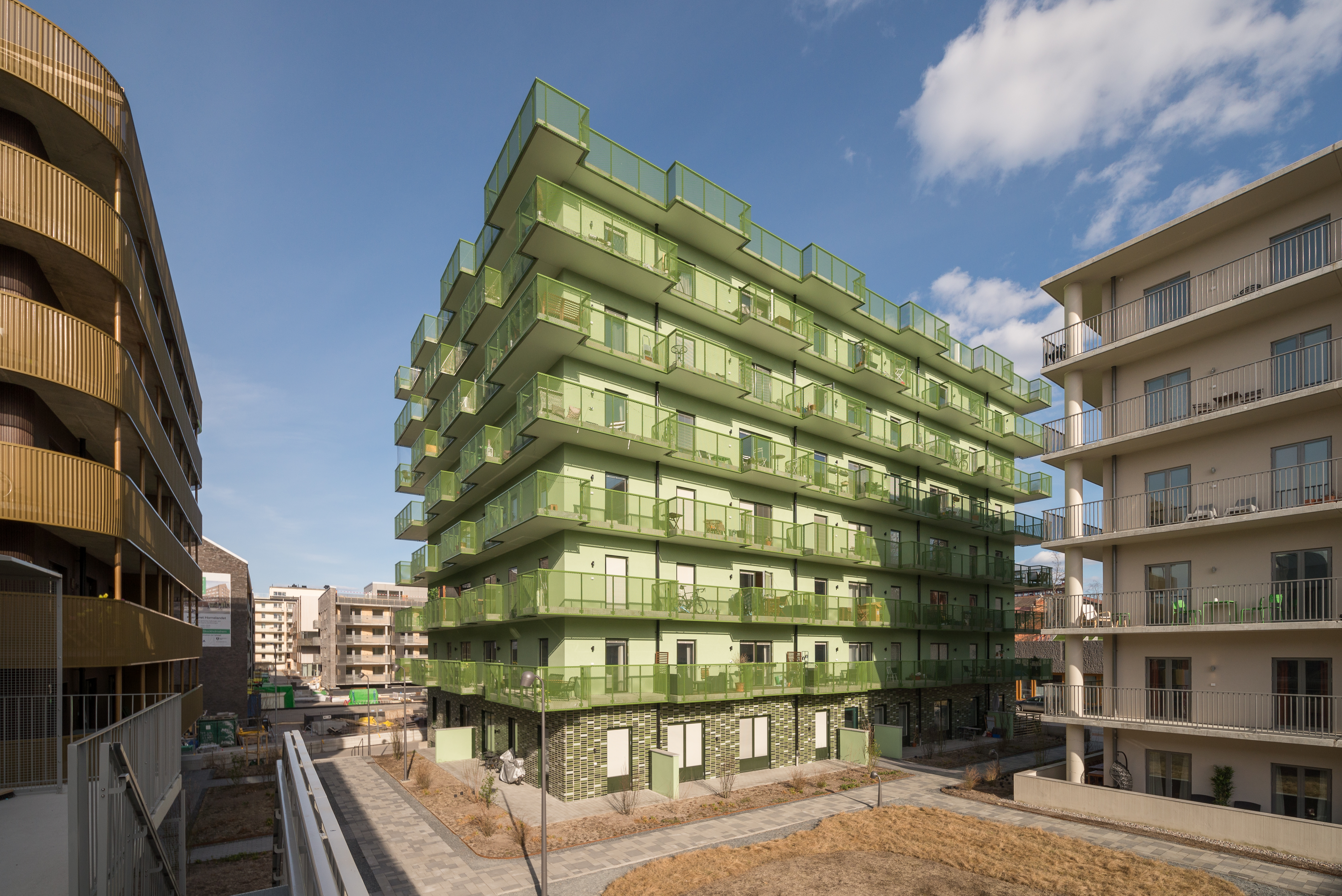 Stora Sjöfallet 3 is part of the city block Stora Sjöfallet in Norra Djurgårdsstaden, Stockholm. Sjöfallet 3 consists of three apartment buildings, built in 2016. Architects: Vera Arkitekter.